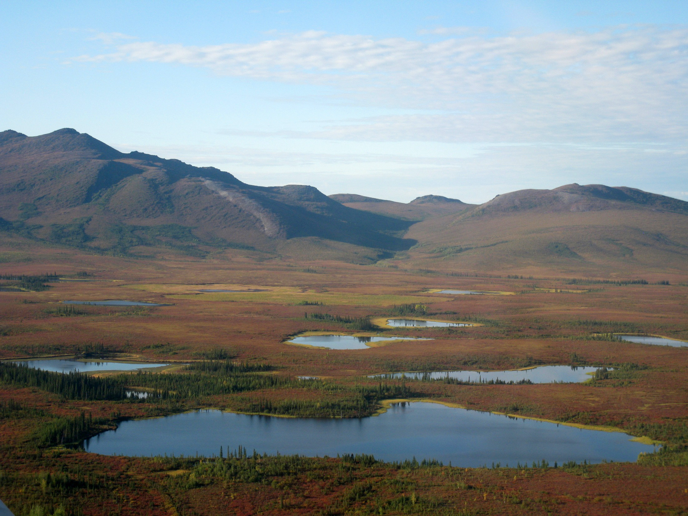 Kobuk River Valley, arctic lakes, permafrost